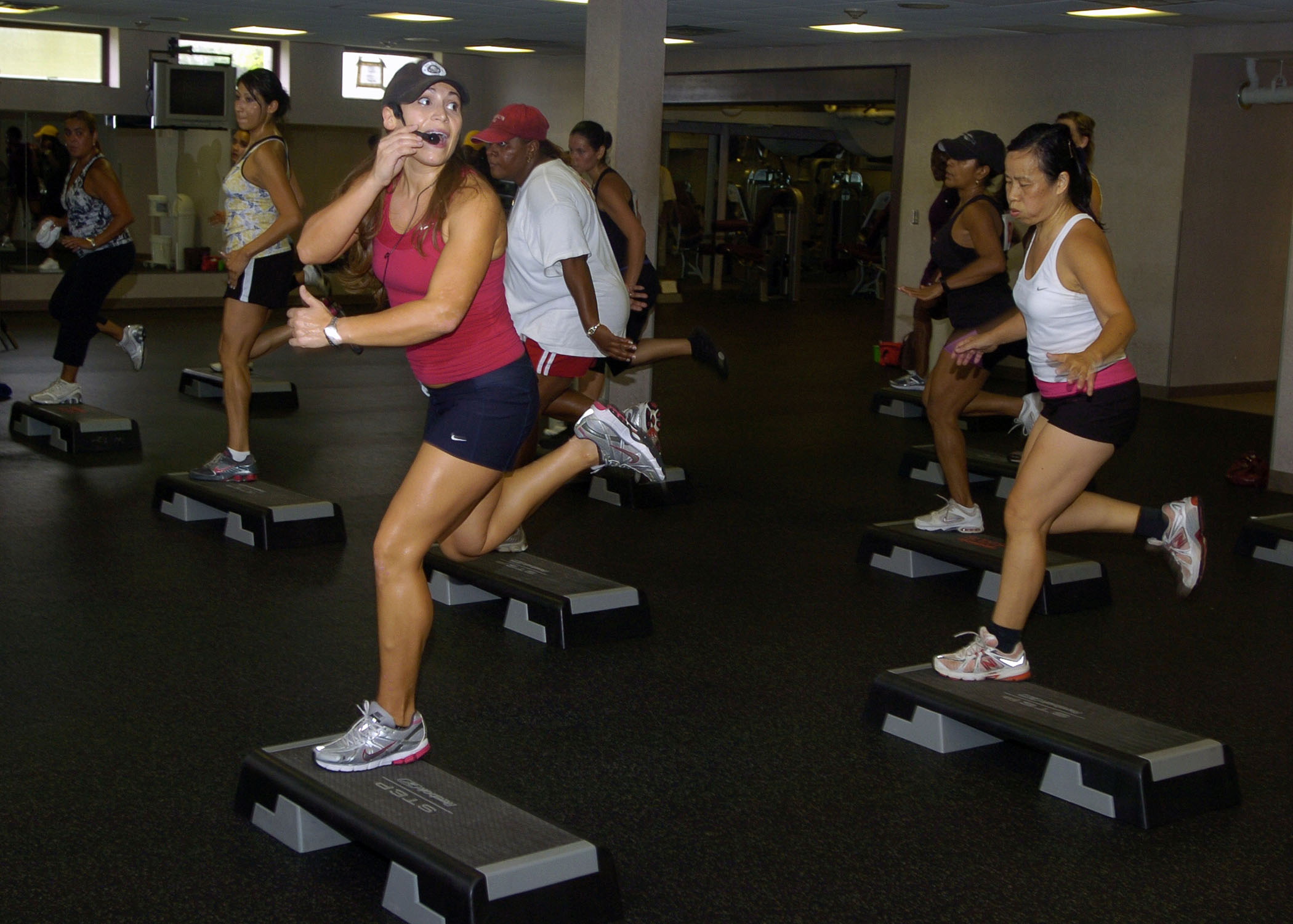 Elizabeth Griffin, step-aerobics instructor, motivates her class to keep up the pace during the Aerobathon at Towle Court Fitness Center Saturday. The Aerobathon ran from 9 a.m. to noon offering spin classes, Zumba and kickboxing.